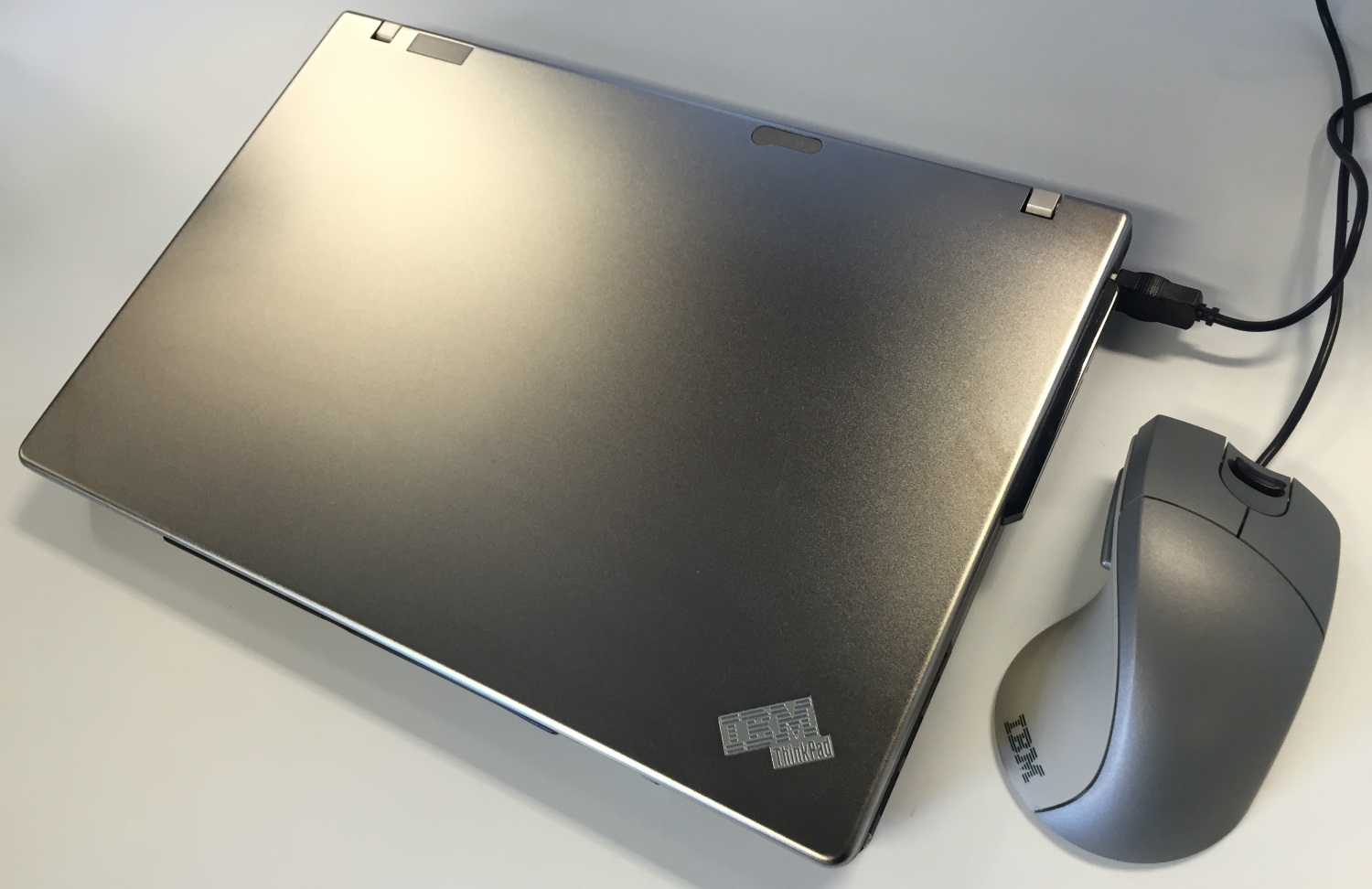 The ThinkPad Z61t with its titanium lid closed accompanied by a silver ScrollPoint Pro.